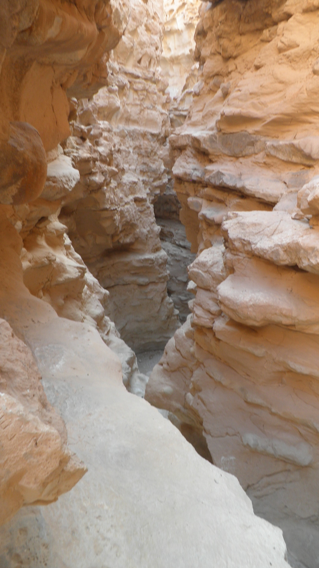 Barak stream and Barak plain, Arava desert, Israel.